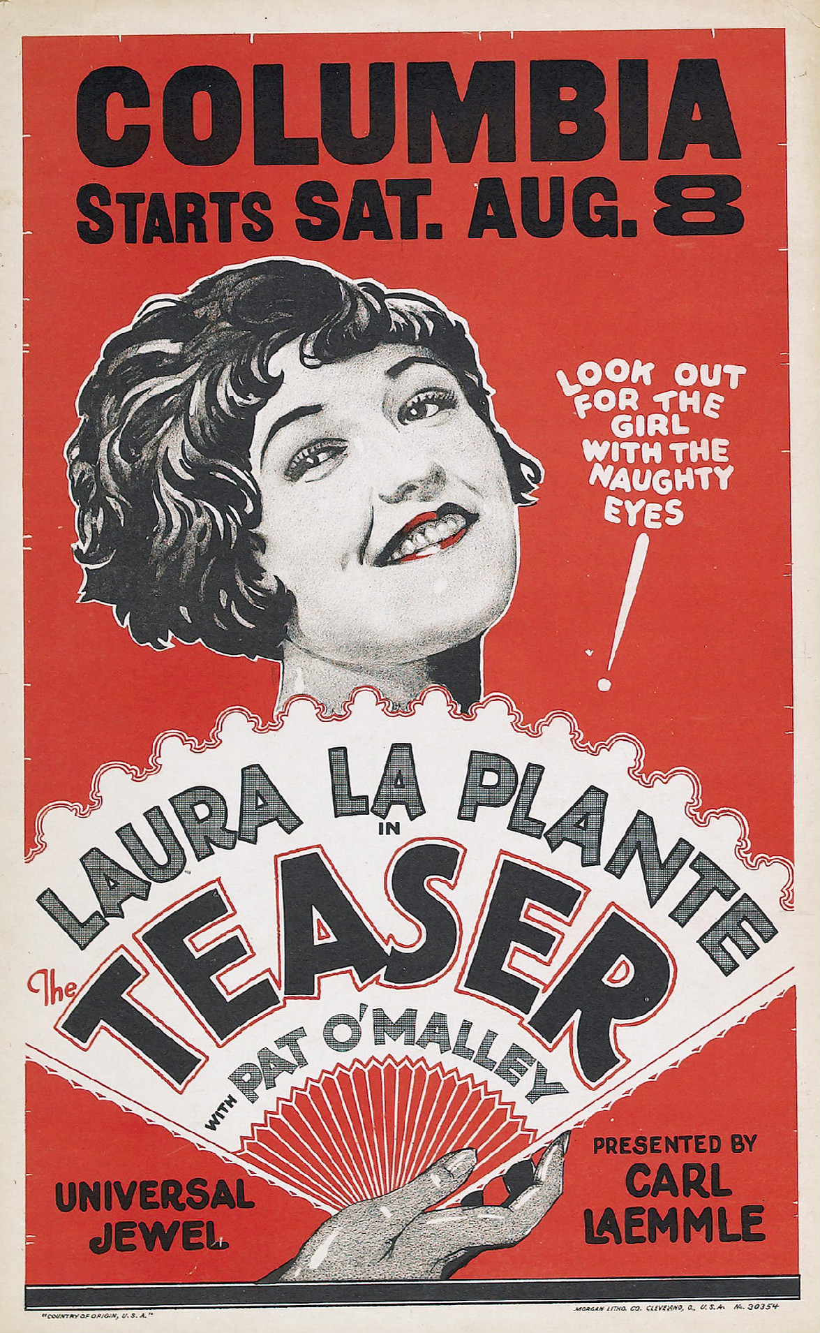 Poster for the 1925 film The Teaser. The item has no copyright markings on it as can be seen in the links above. At bottom left is Country of origin USA. At bottom right is Morgan Litho Corp. Cleveland, O. USA and No. 30354 which likely are related to the print job of the poster.